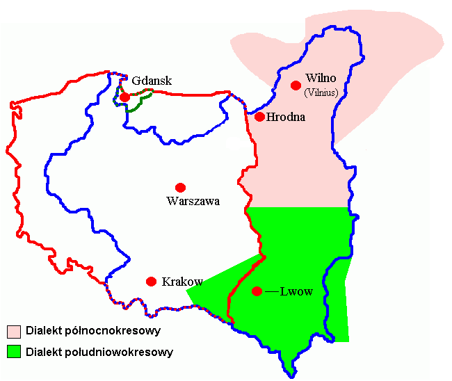 Map of Poland in 1945.